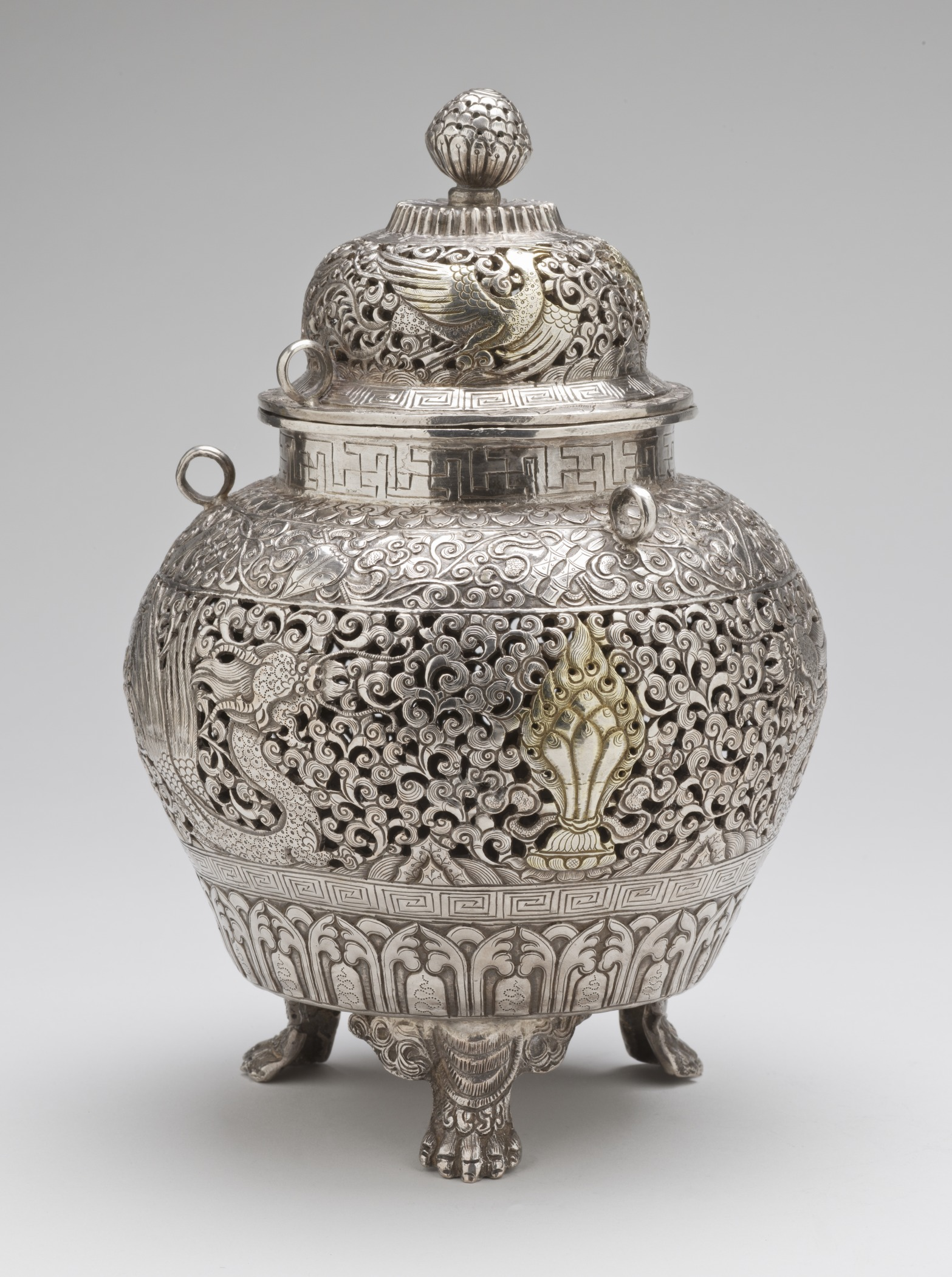 Tibet, late 19th century Tools and Equipment; containers Parcel-gilt silver repoussé Gift of Julian Sands (M.2011.157.2a-b) South and Southeast Asian Art